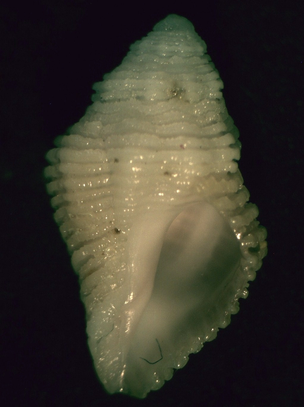 Coralliophila mira (Cotton & Godfrey, 1932), a murex snail from the family Muricidae; South Australia